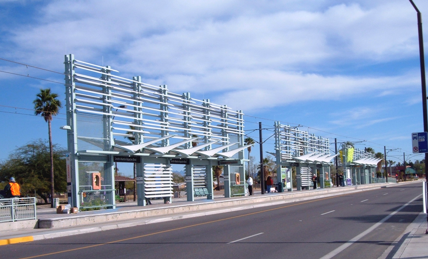 Photograph of the Smith-Martin (or Apache at Smith-Martin) Station of METRO Light Rail that serves the Phoenix area, Arizona, USA. This photograph was taken during the light rail's grand opening celebration on December 27, 2008.